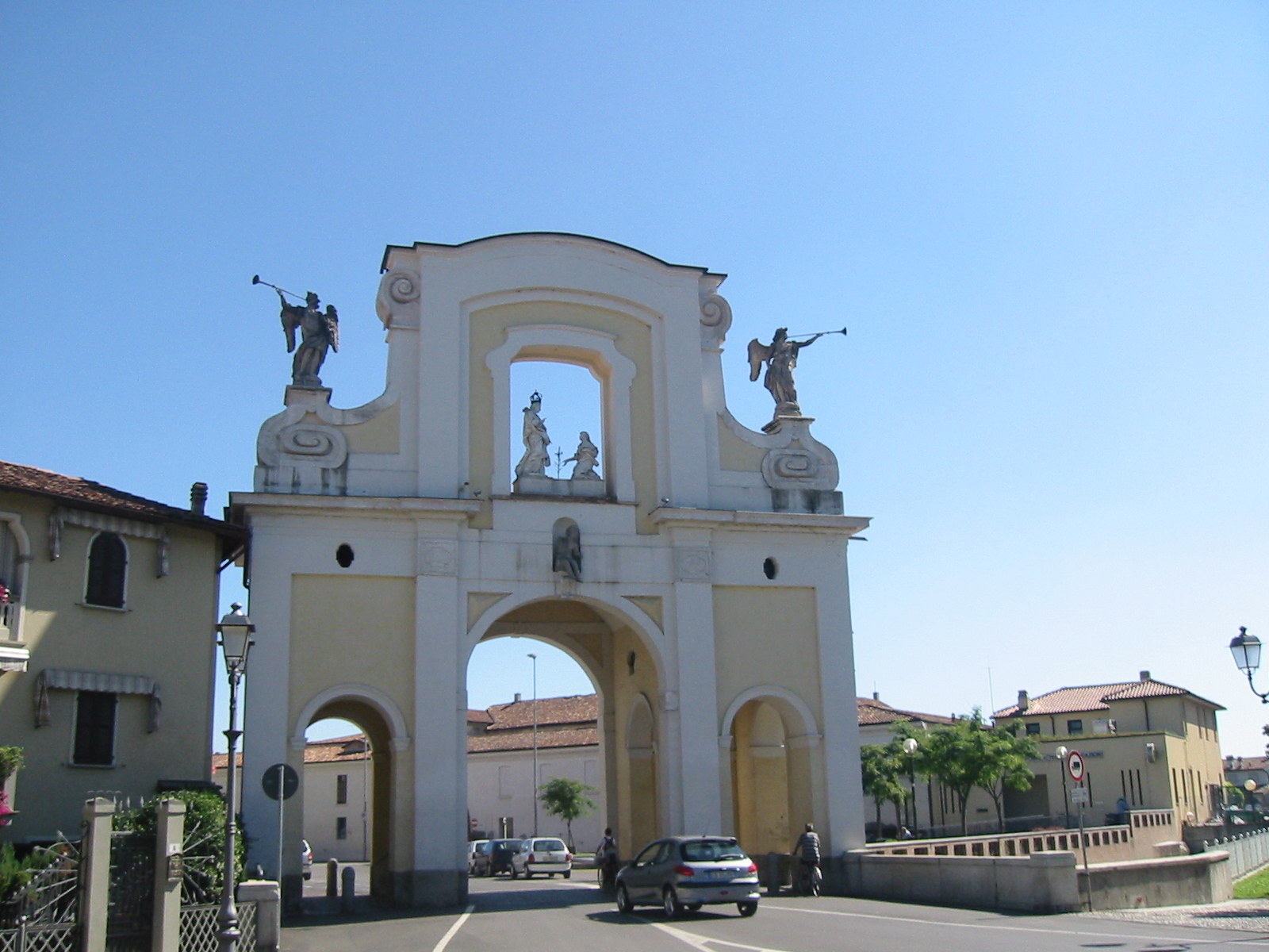 Porta Nuova, Caravaggio, Lombardy, Italy